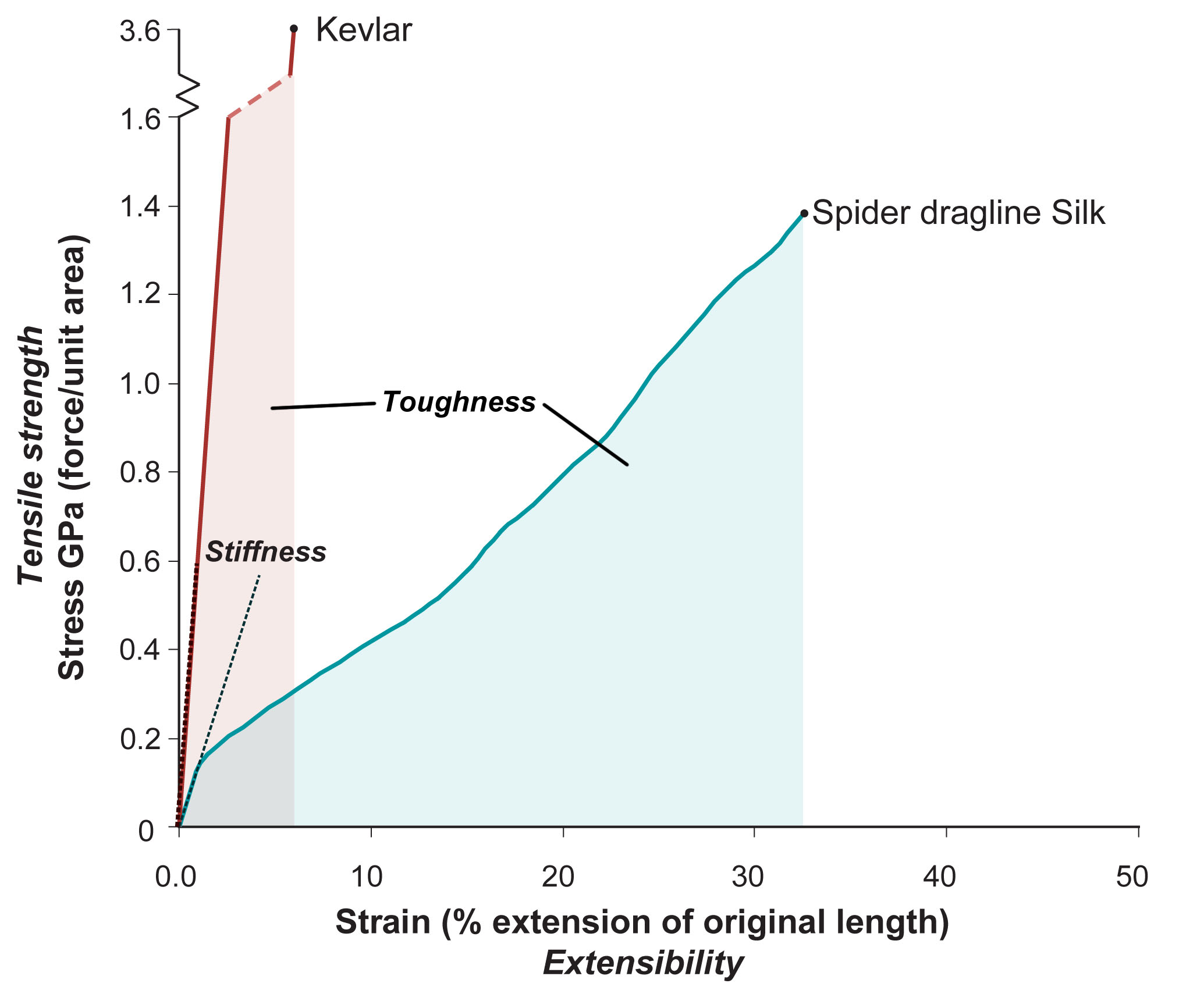 Spider dragline silk has a tensile strength of roughly 1.3 GPa. The tensile strength listed for steel might be slightly higher – e.g. 1.65 GPa. [1], but spider silk is a much less dense material, so that a given weight of spider silk is five times as strong as the same weight of steel.